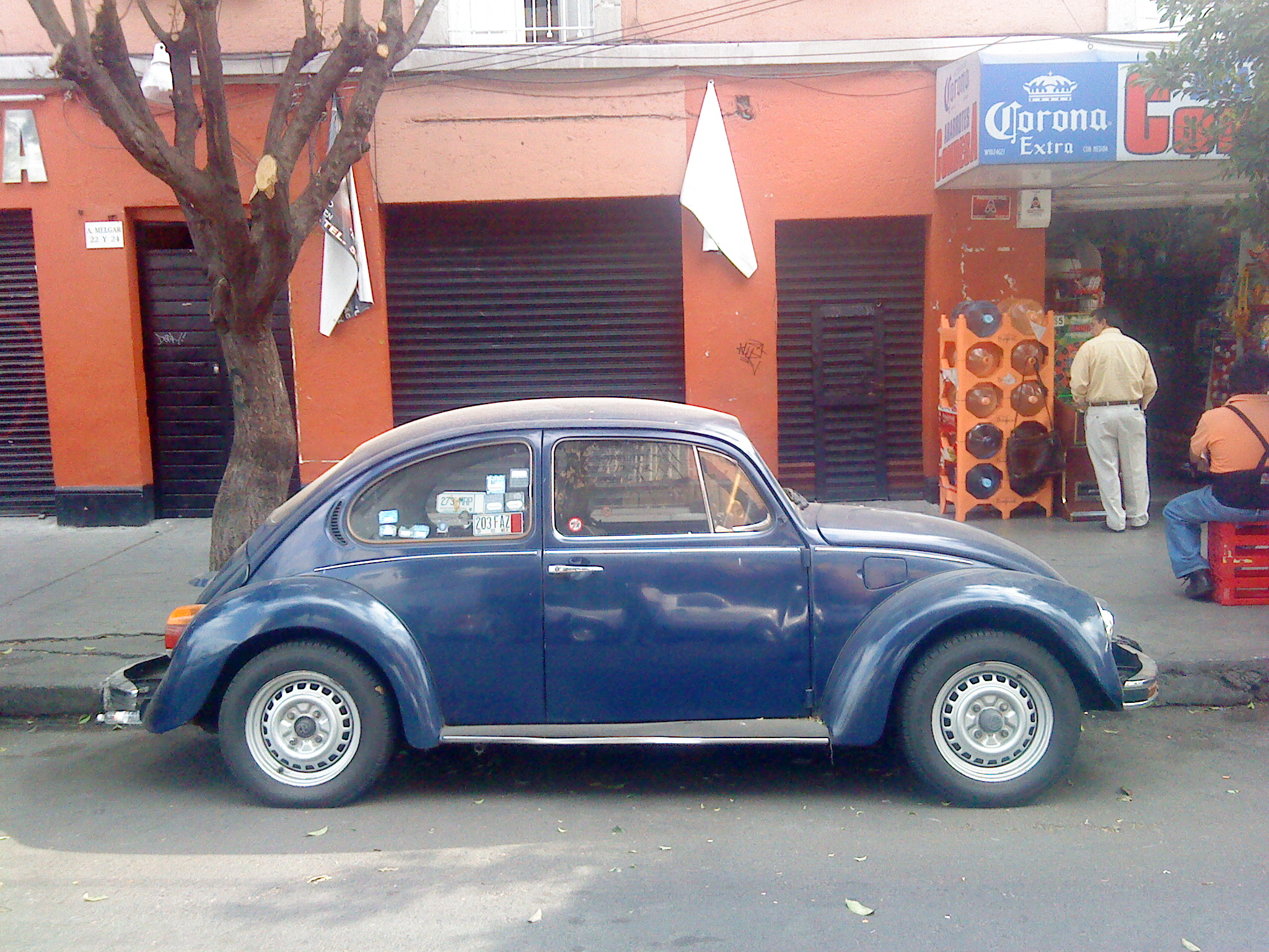 A 1992 Mexican Volkswagen Beetle showing brazilian rims in México.